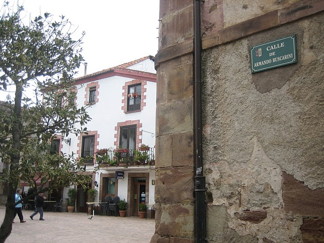 Armando Buscarini Street in Ezcaray (La Rioja, Spain).